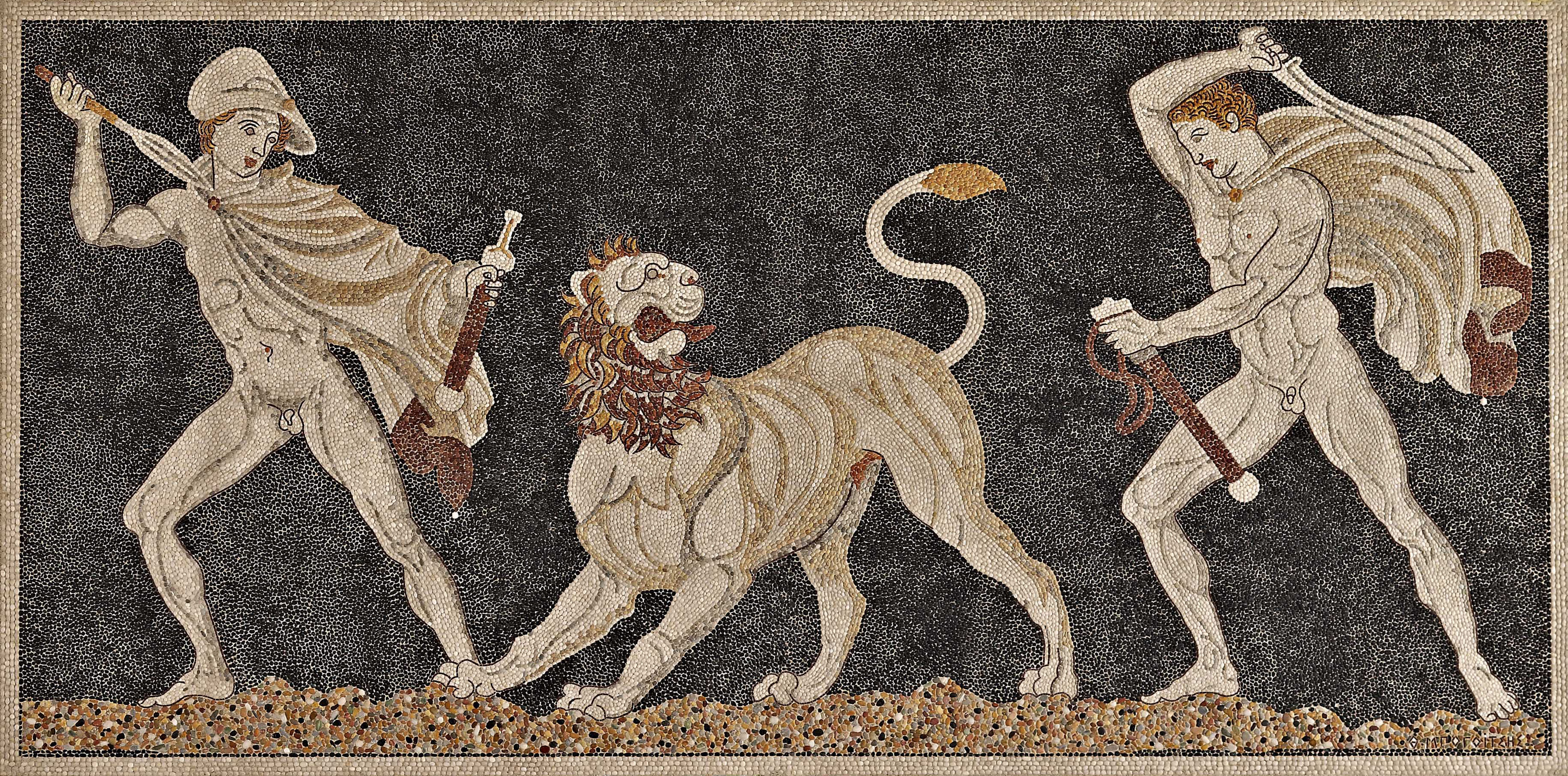 Mosaic of a lion hunt